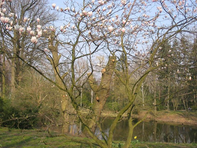 Natural monument kettle hole „Krummer Pfuhl“ in the cemetery Eythstr, Berlin-Schöneberg, Germany, nearby Alboinplatz (place).